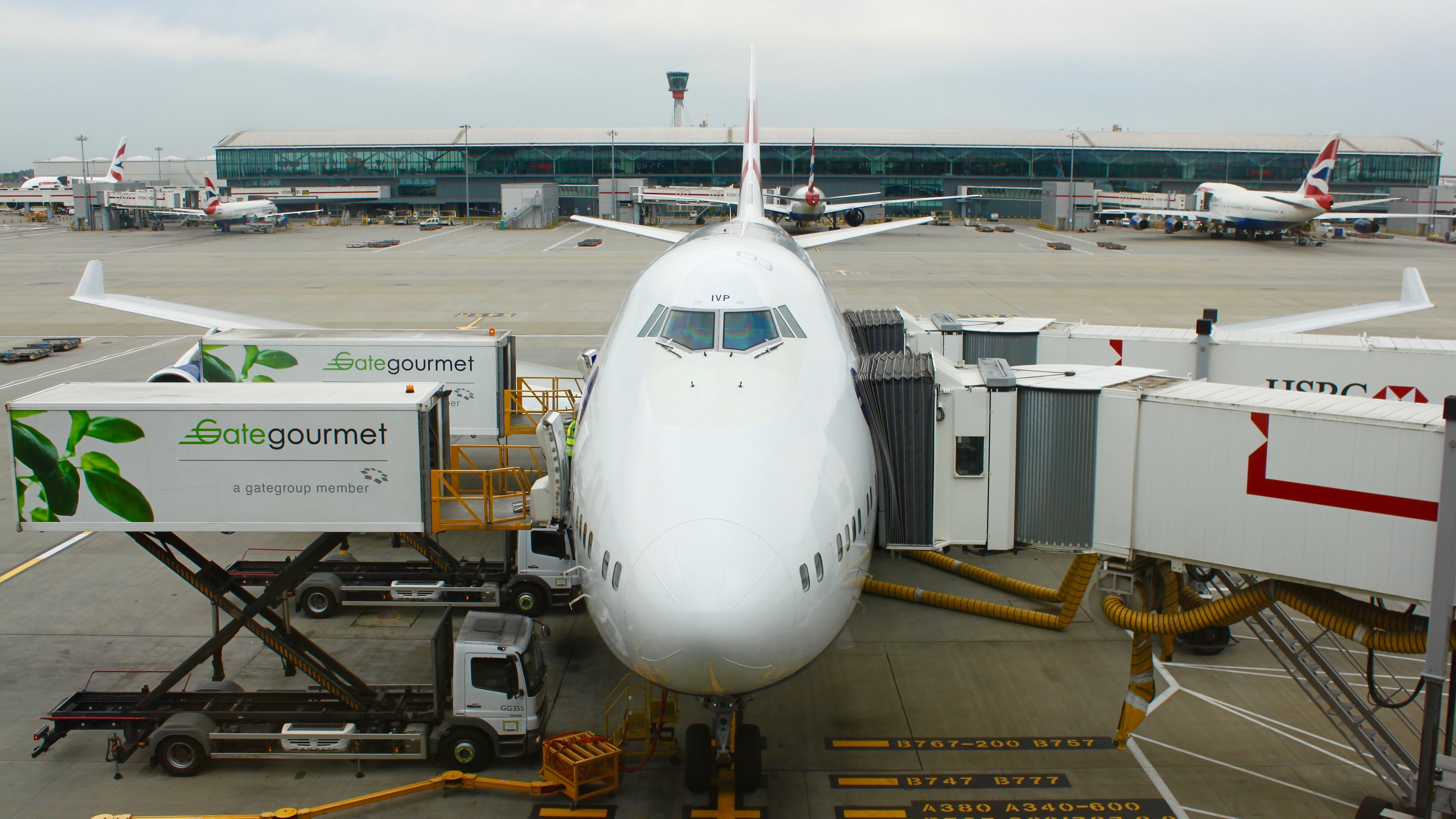 G-CVIP awaiting its next departure at EGLL.